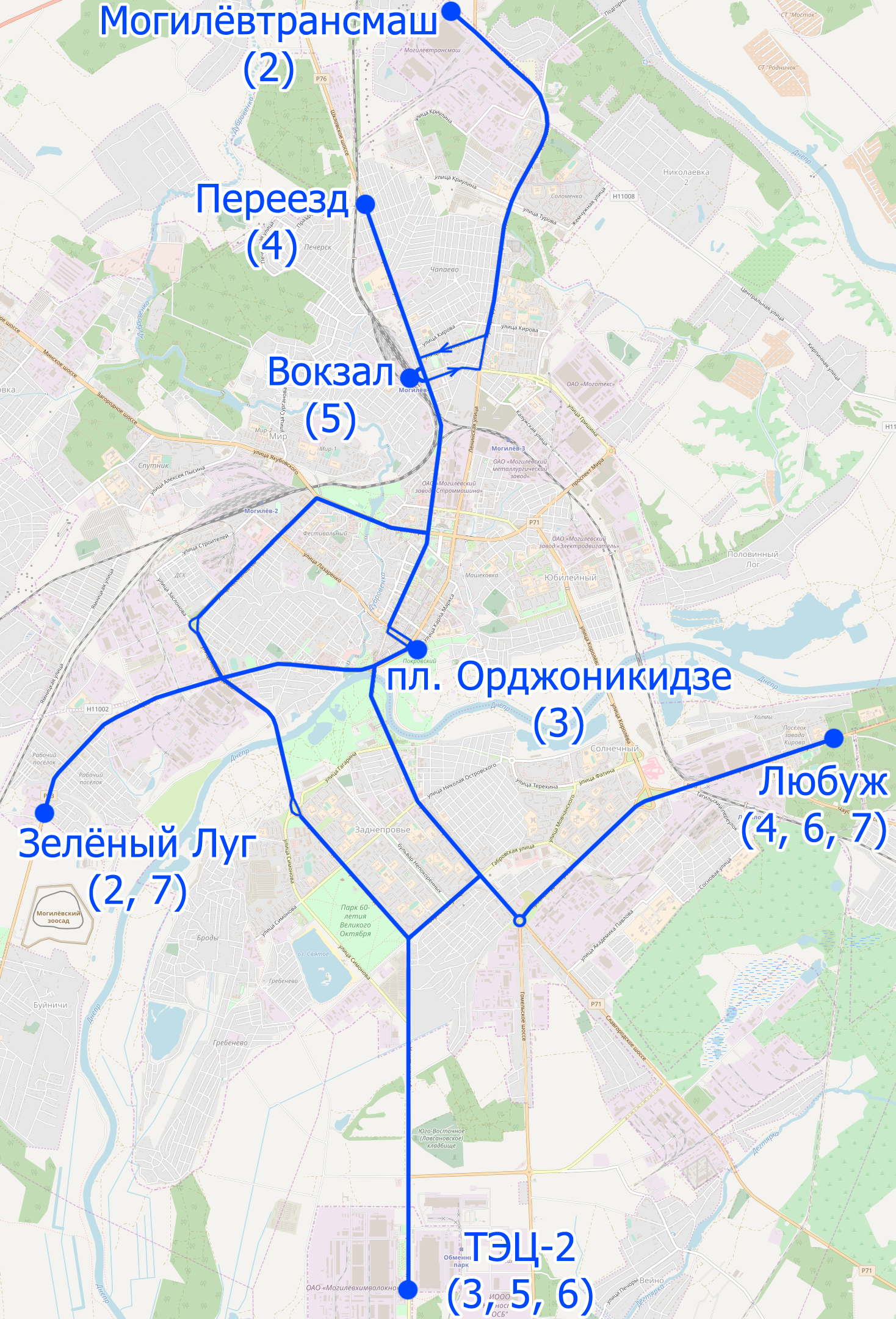 Trolleybus map of Mahilioŭ, Belarus (in Russian) This map may be incomplete, and may contain errors. Don't rely solely on it for navigation.